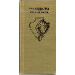 The Herbalist